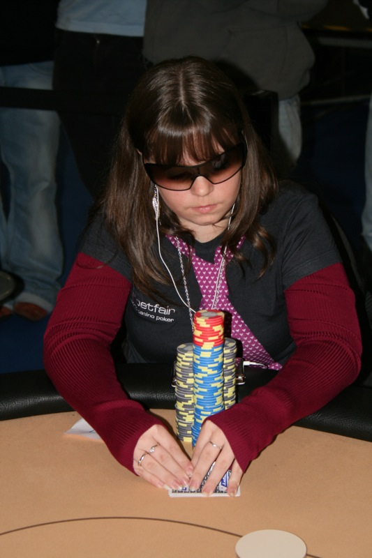 Annette Obrestad at the EPT4 Dublin